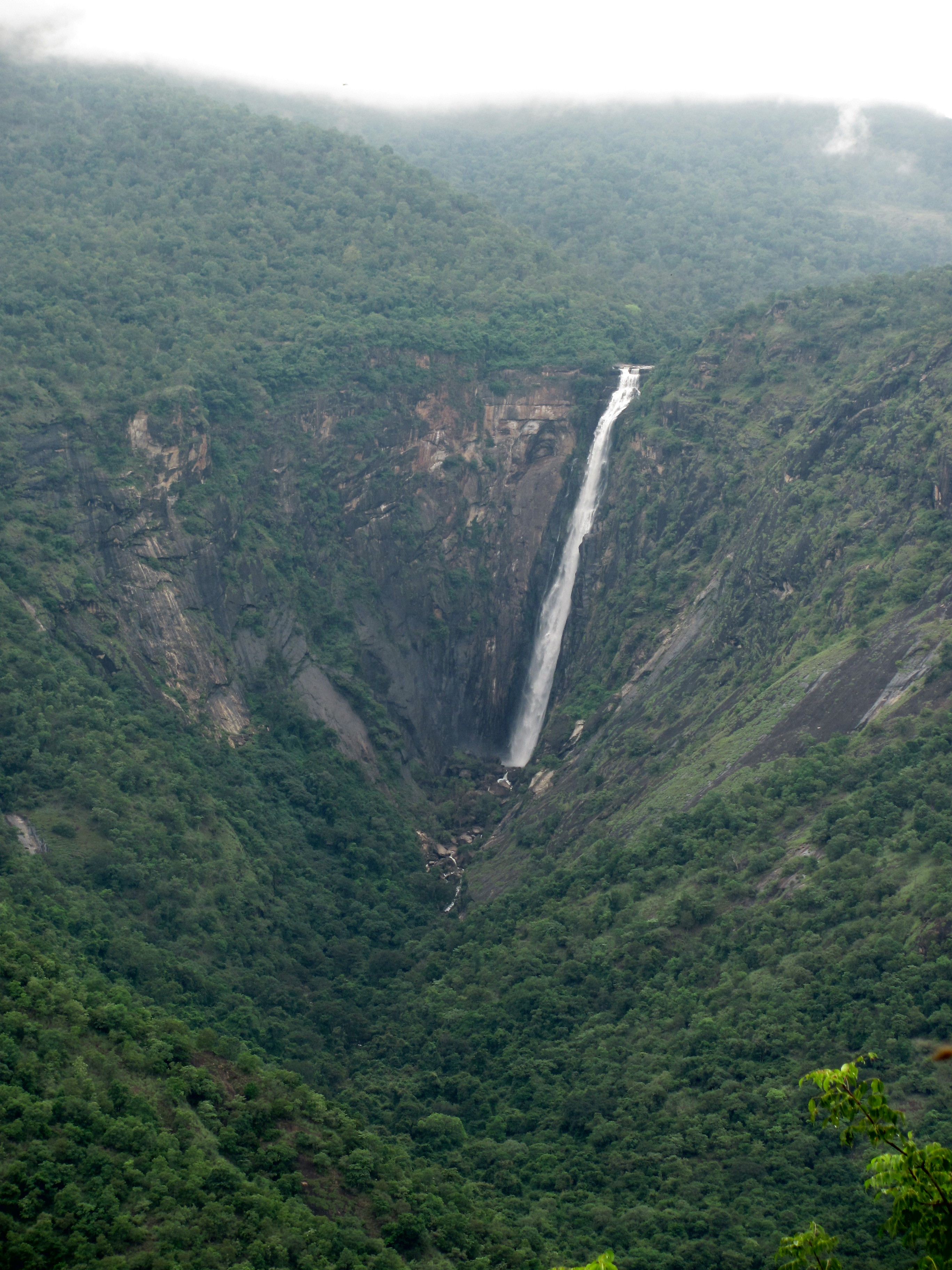 "Rattail Falls" (Thaliyar Falls) is clearly visible from the Madurai Ghat Road going up to Kodaikanal, Palni Mountains, an outshoot of the Western Ghats. It is possible to hike to the top of the Falls, starting from Mooliyar, but a guide would be recommended for the first time. About a 6 or 7 hour hike there and back or down to the dam on the plains.